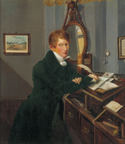 Interior view with a young notary at his desk; oil on canvas; 38.4 x 34.5 cm